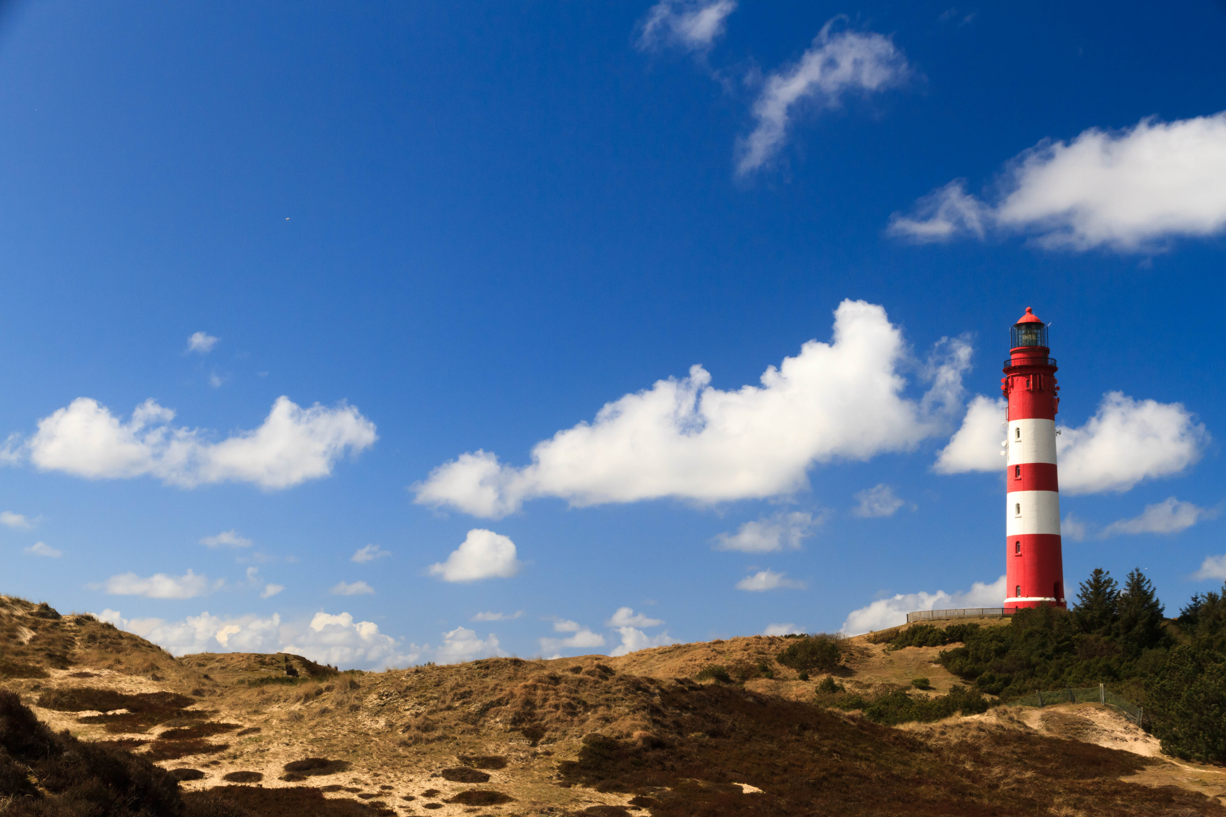 The making of this document was supported by the Community-Budget of Wikimedia Germany. Amrum Lighthouse